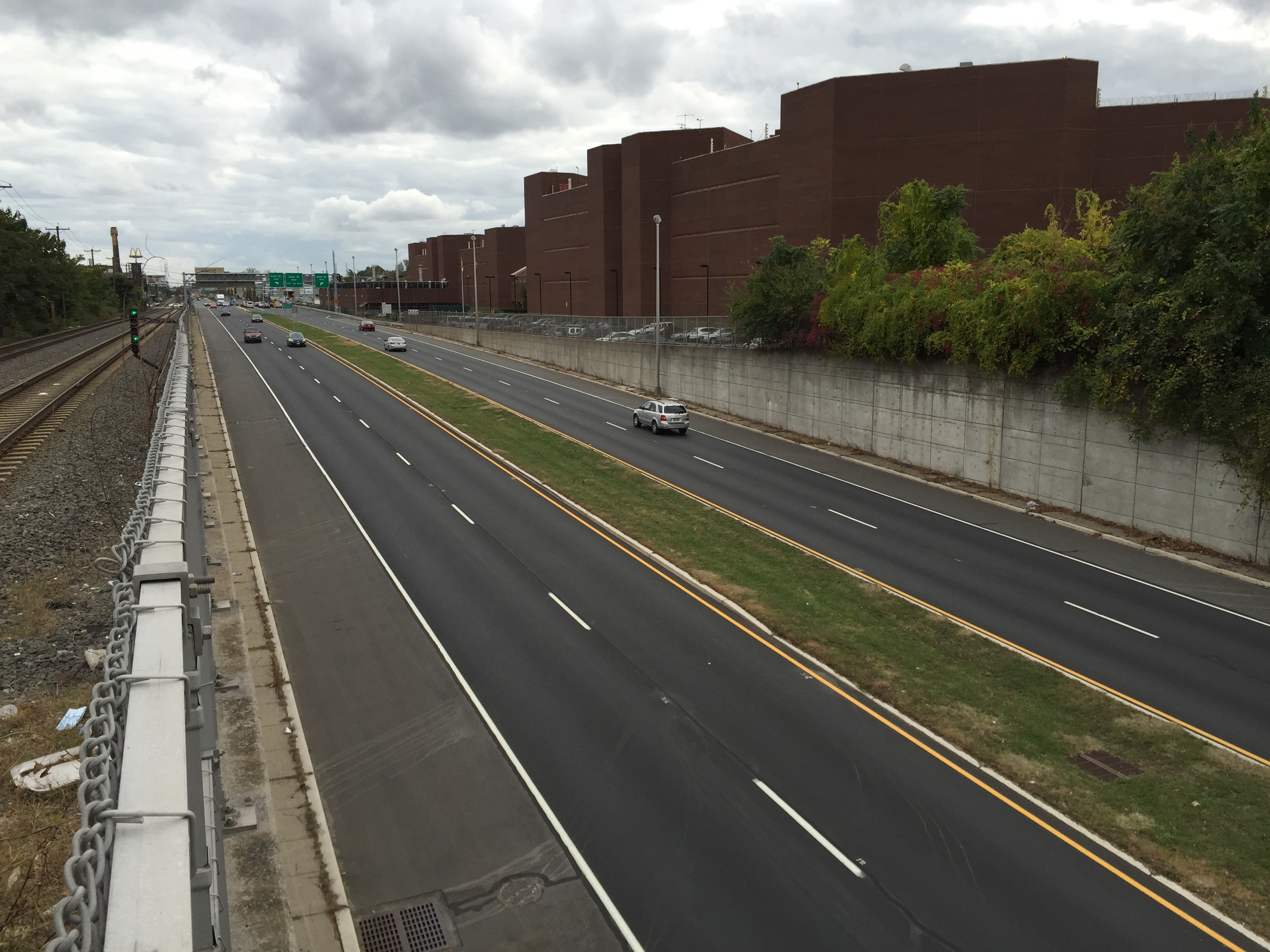 View south along New Jersey State Route 129 (Canal Boulevard) from the overpass for U.S. Route 206 (South Broad Street) in Trenton City, Mercer County, New Jersey